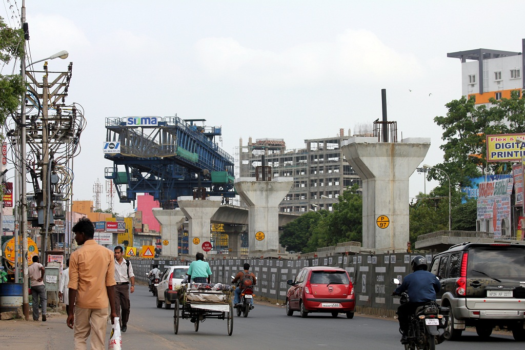 Chennai Metro viaduct work near Arumbakkam